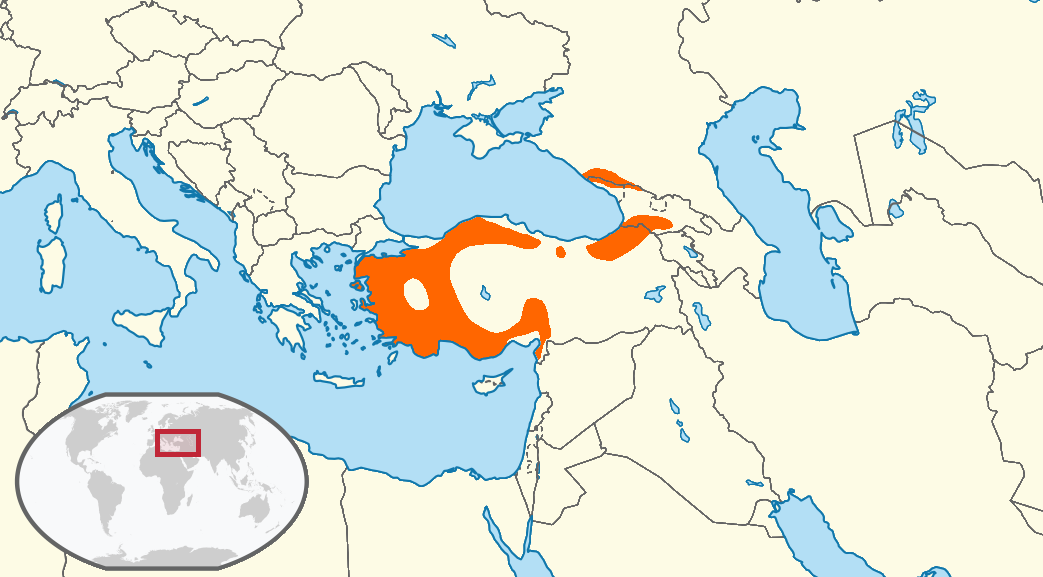 Distribution of the Krüper's Nuthatch